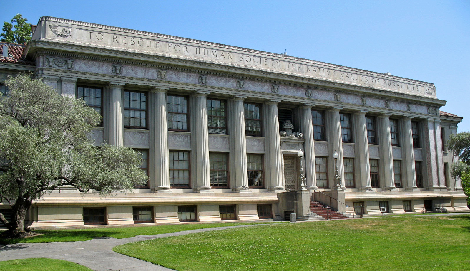 National Register of Historic Places listings in Alameda County, California. Hilgard Hall, University of California, Berkeley. Photographed from the grounds to the west of the building.